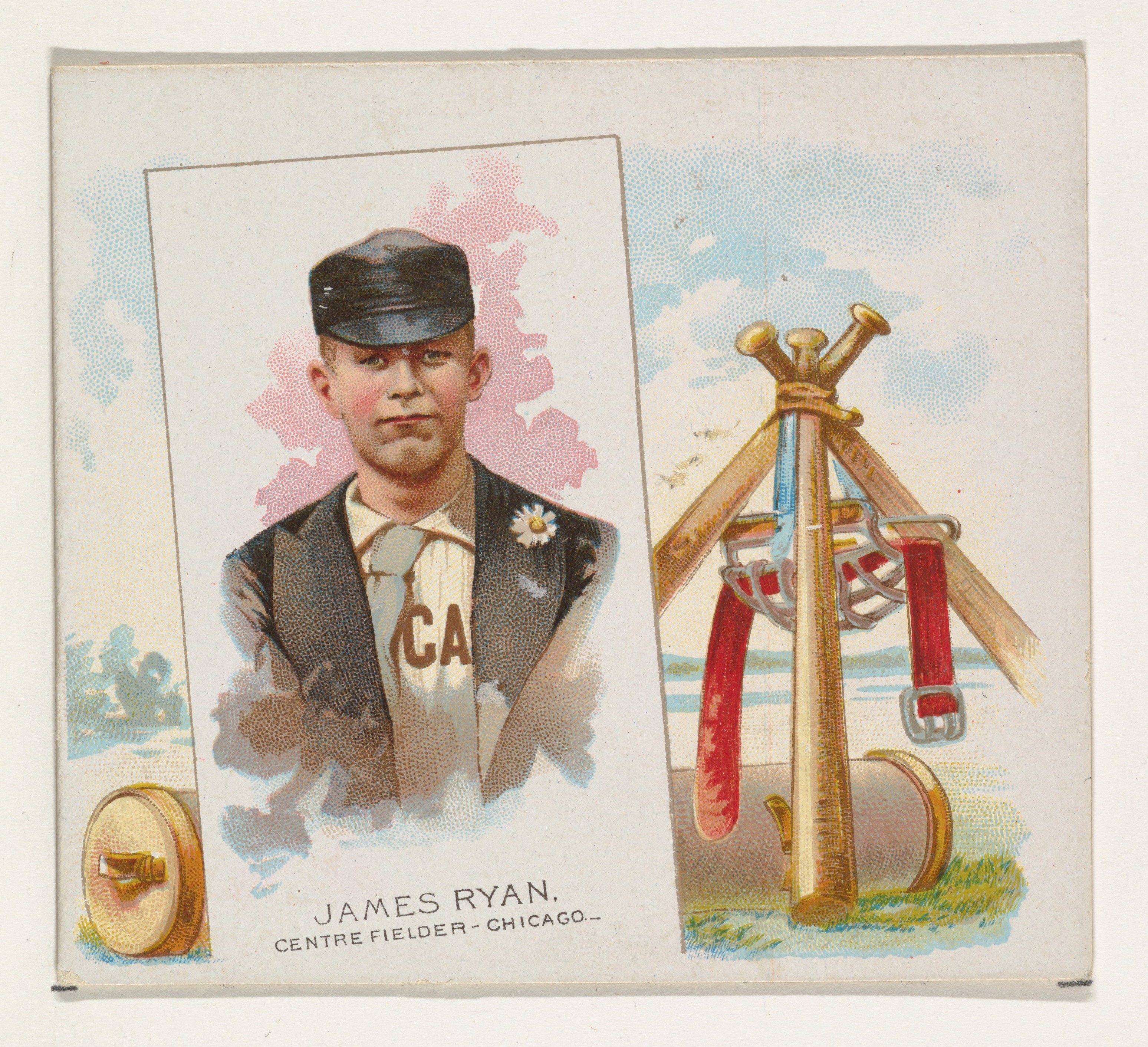 Baseball card; Prints